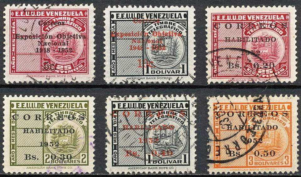 Telegraph stamps of Venezuela overprinted for postal use 1952.